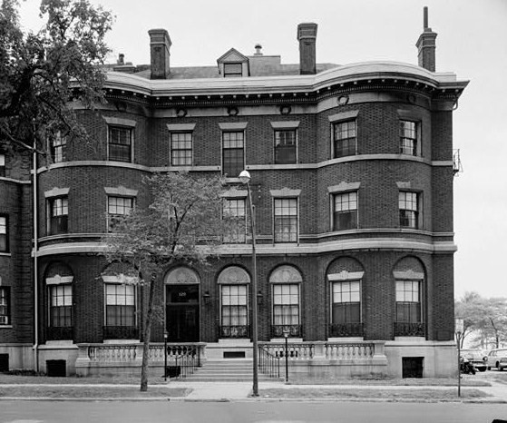 Bryan Lathrop House, 120 East Bellevue Place, Chicago (Cook County, Illinois) - correct version This file comes from the Historic American Buildings Survey (HABS), Historic American Engineering Record (HAER) or Historic American Landscapes Survey (HALS). These are programs of the National Park Service established for the purpose of documenting historic places. Records consist of measured drawings, archival photographs, and written reports. This tag does not indicate the copyright status of the attached work. A normal copyright tag is still required. See Commons:Licensing. This work is in the public domain in the United States because it is a work prepared by an officer or employee of the United States Government as part of that person’s official duties under the terms of Title 17, Chapter 1, Section 105 of the US Code. Note: This only applies to original works of the Federal Government and not to the work of any individual U.S. state, territory, commonwealth, county, municipality, or any other subdivision. This template also does not apply to postage stamp designs published by the United States Postal Service since 1978. (See § 313.6(C)(1) of Compendium of U.S. Copyright Office Practices). It also does not apply to certain US coins; see The US Mint Terms of Use. This file has been identified as being free of known restrictions under copyright law, including all related and neighboring rights.